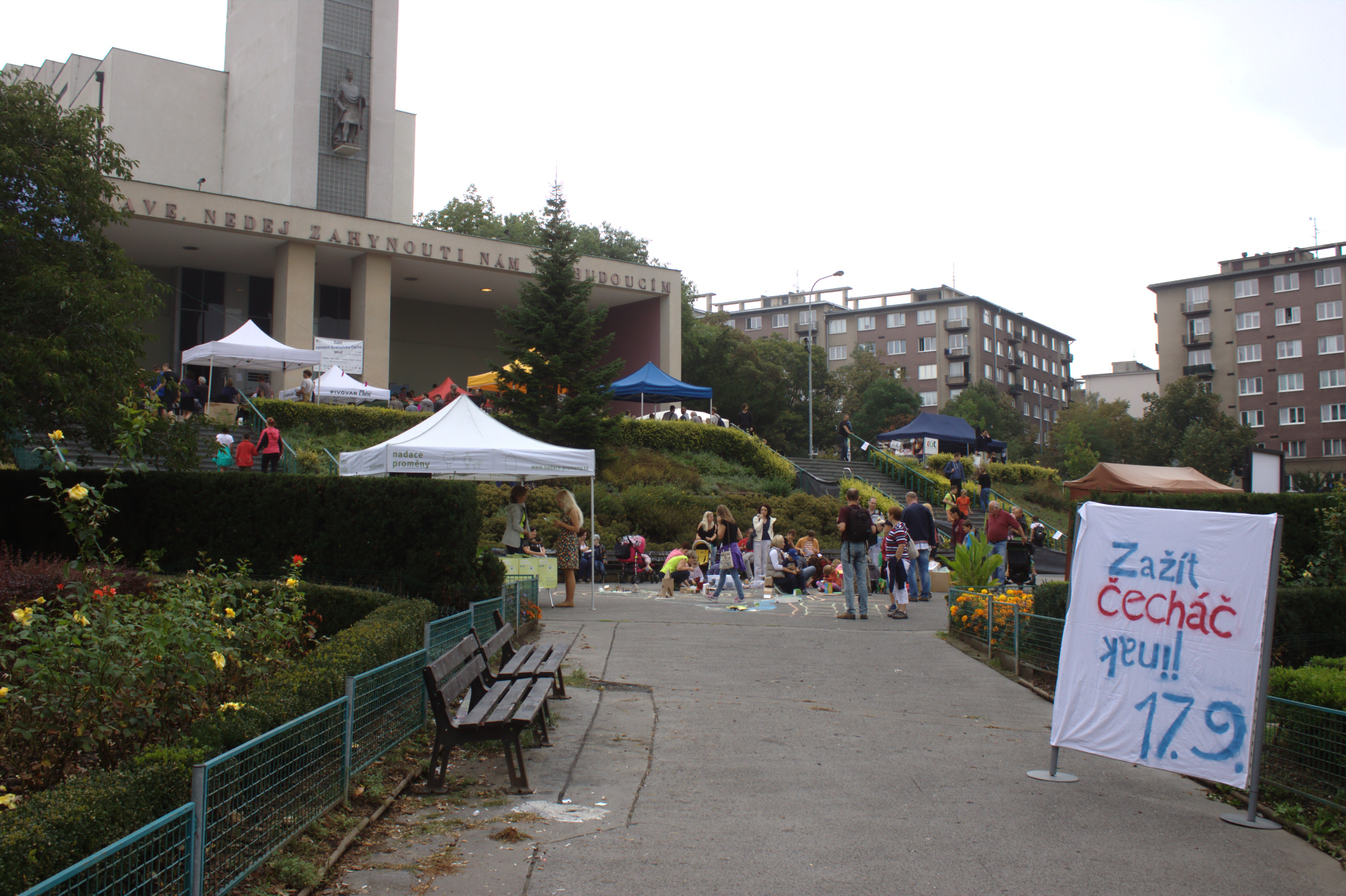 "Zažít město jinak" event at Náměstí svatopluka Cecha in Prague-Vršovice